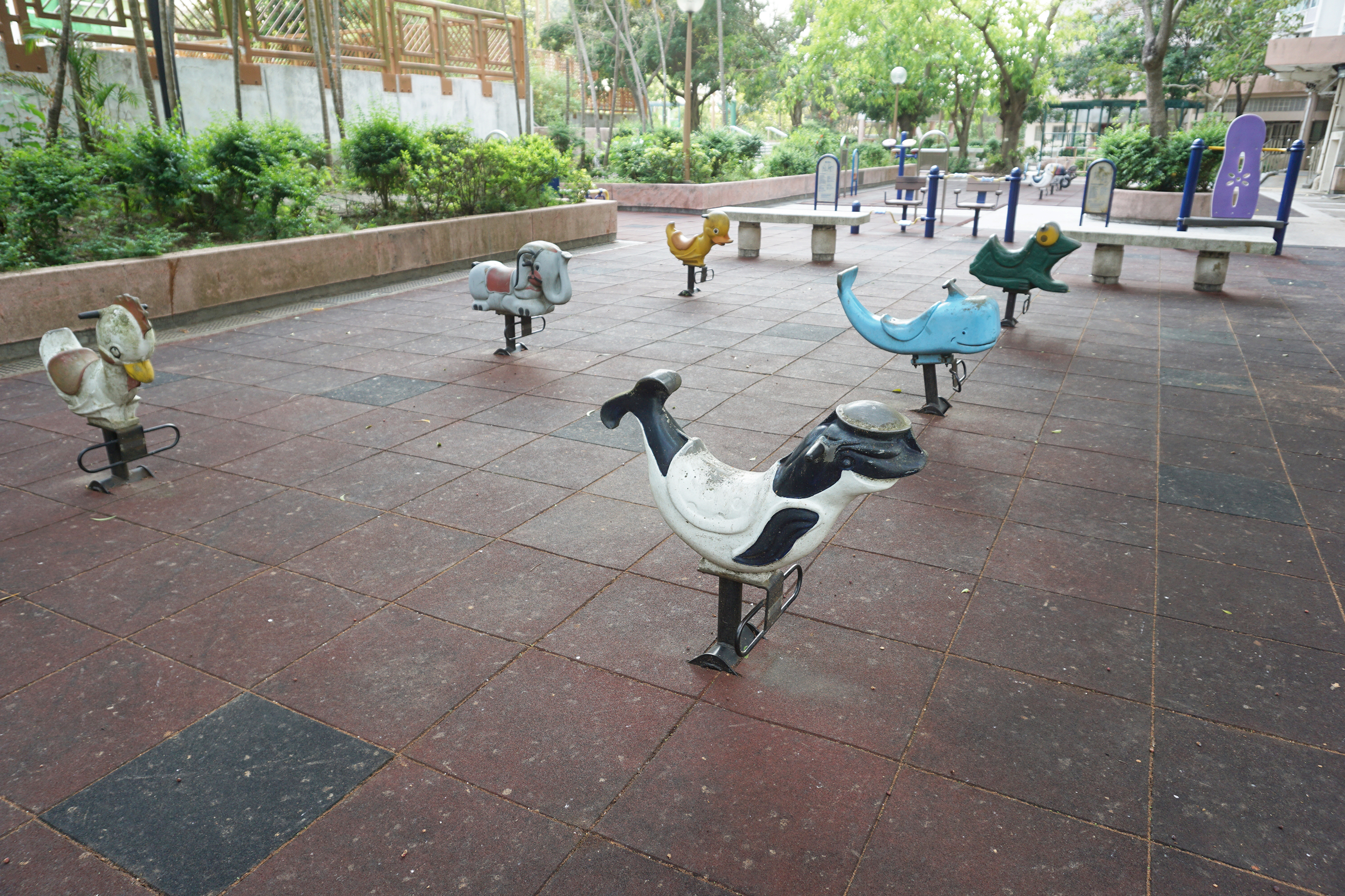 Tsui Ping (North) Estate in Kwun Tong, Hong Kong.